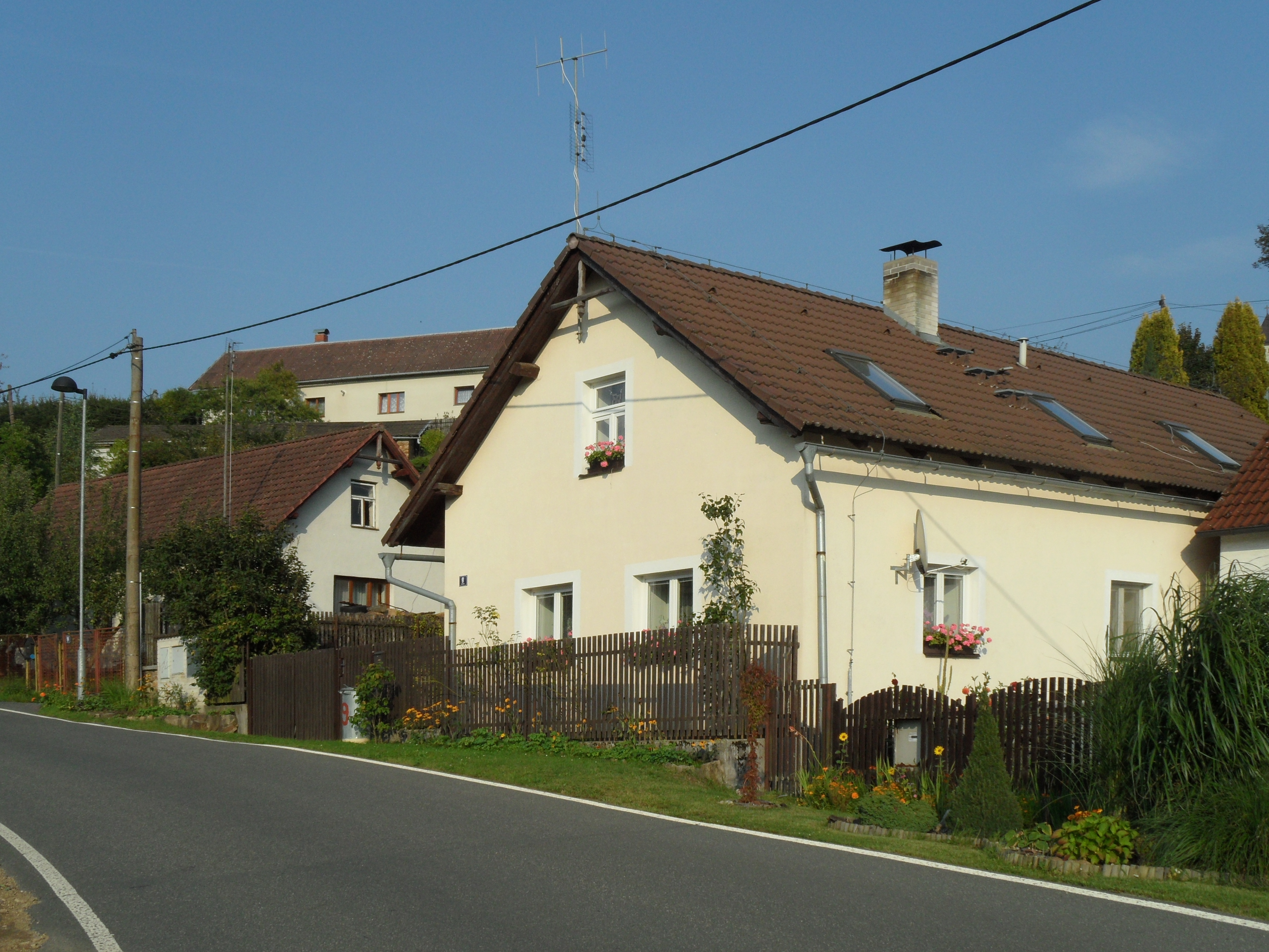 Dubina (Zruč nad Sázavou) B. Houses along Main Road, Kutná Hora District, the Czech Republic.